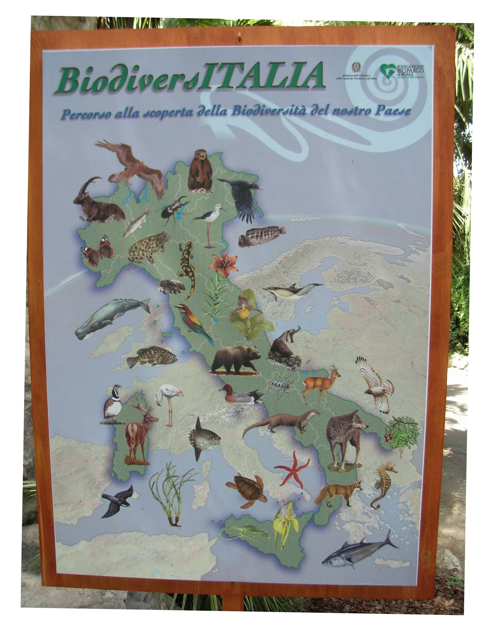 Zoo Information Board Bioparco (Rome Zoo)